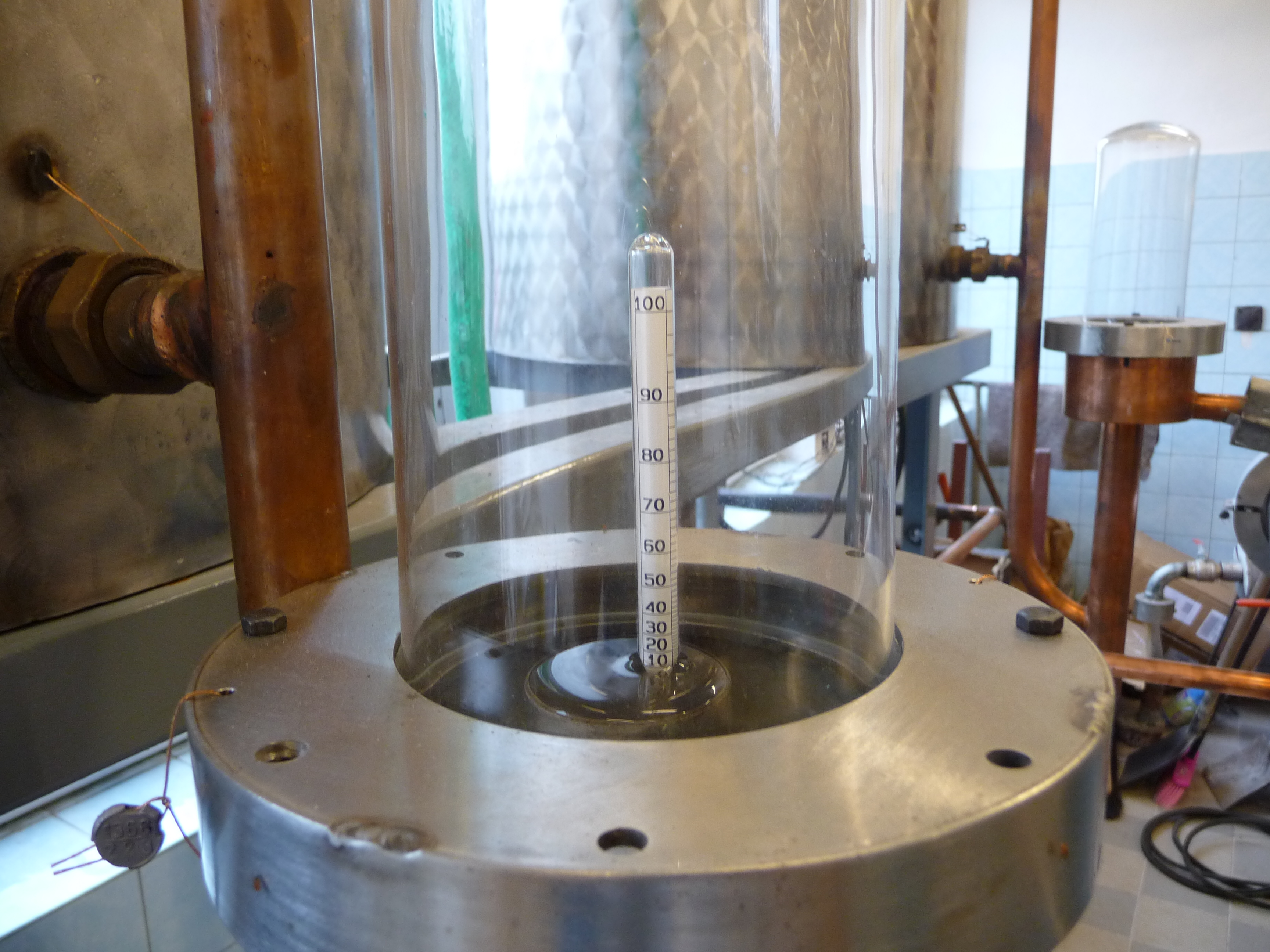 Alcoholometer, Hvozdná distillery